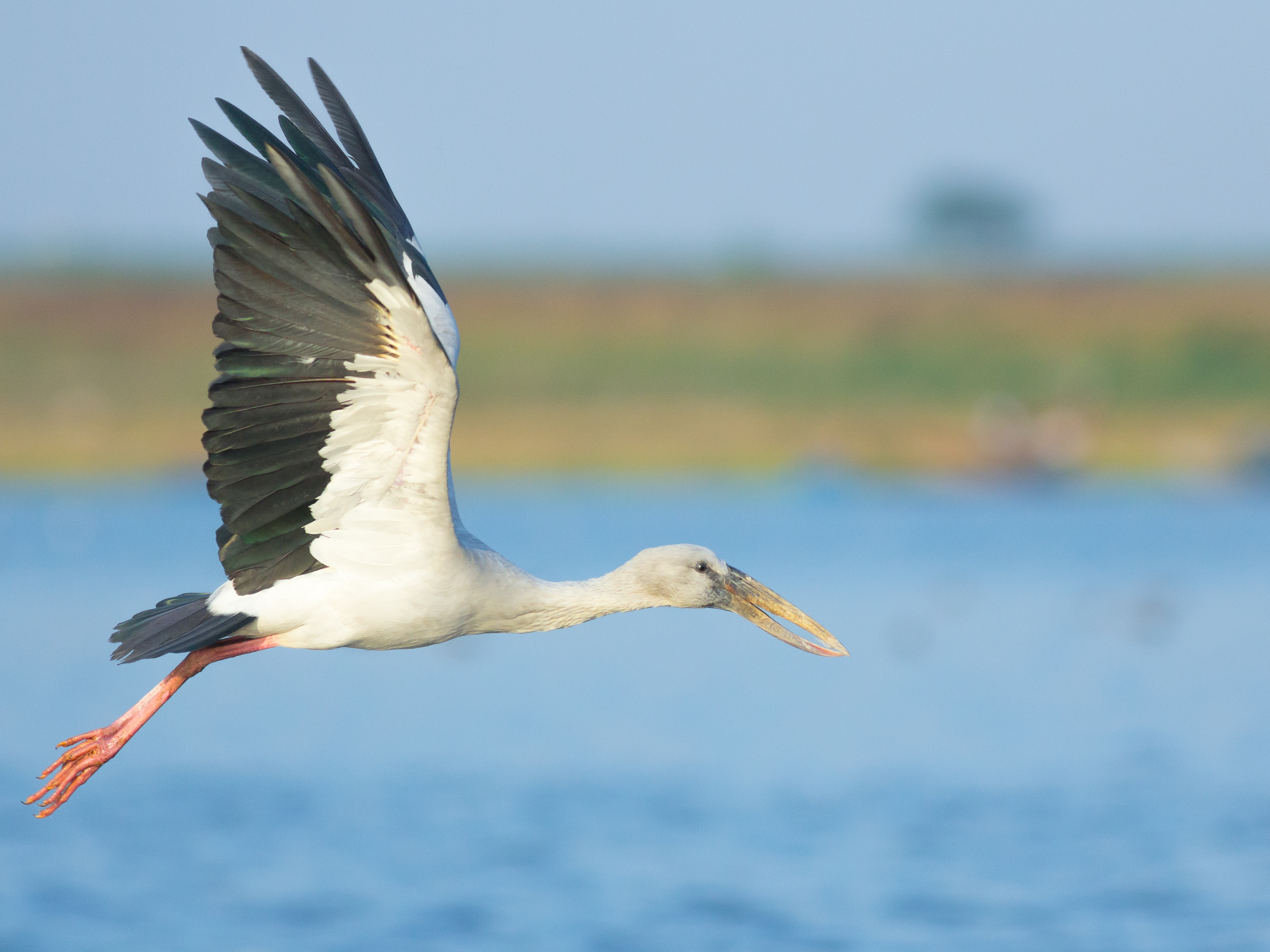 Clicked at Bhigwan, Maharashtra